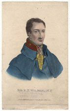 Sir Robert Thomas Wilson.